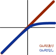 I-V relationship of AMPA glutamate receptors